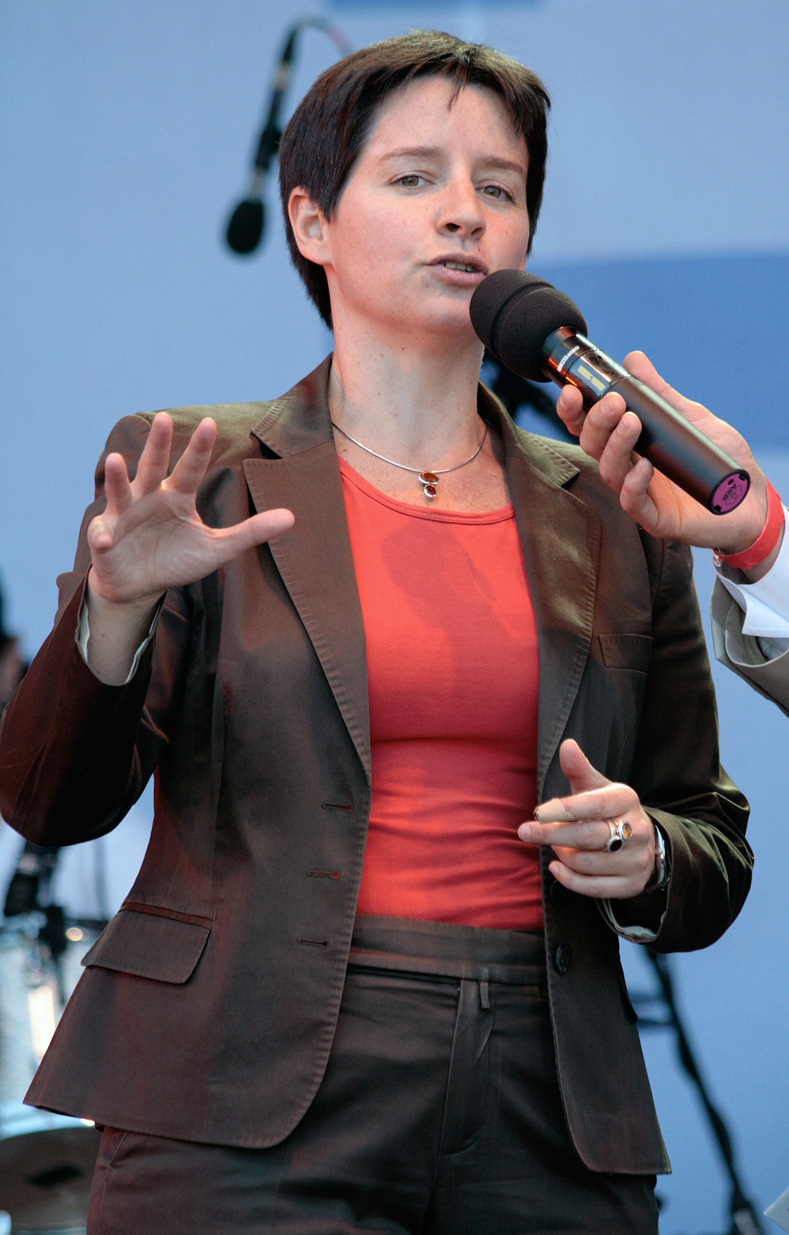 Austrian politician Sonja Wehsely (SPÖ) during the Wien. Für Dich-(Vienna. For You-)weekend of the municipality of Vienna at the Rathaus.